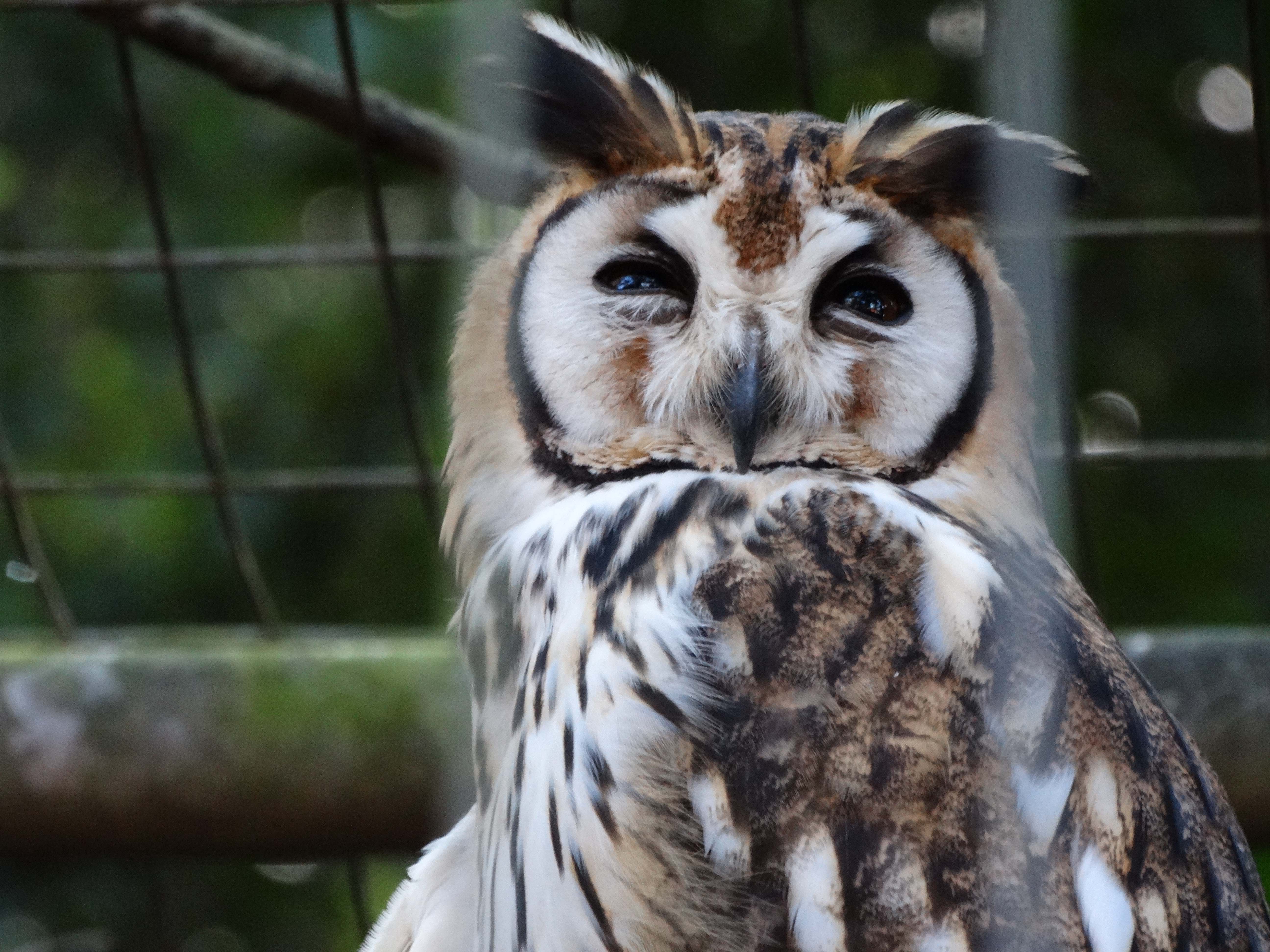 Striped owl at Sorocaba Zoo.